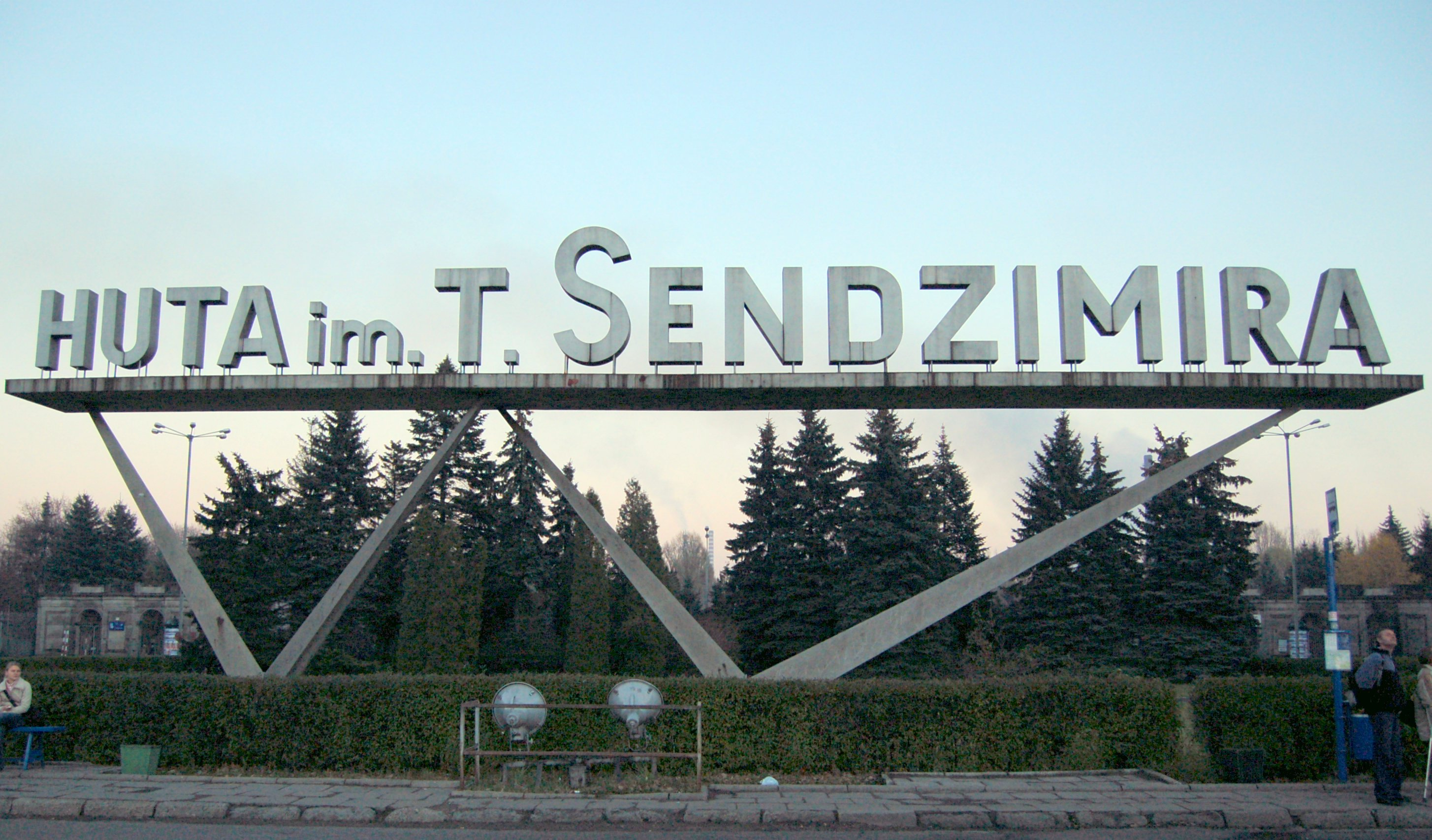 The main entrance to the Nowa Huta Steelworks, in the Krakow suburbs.